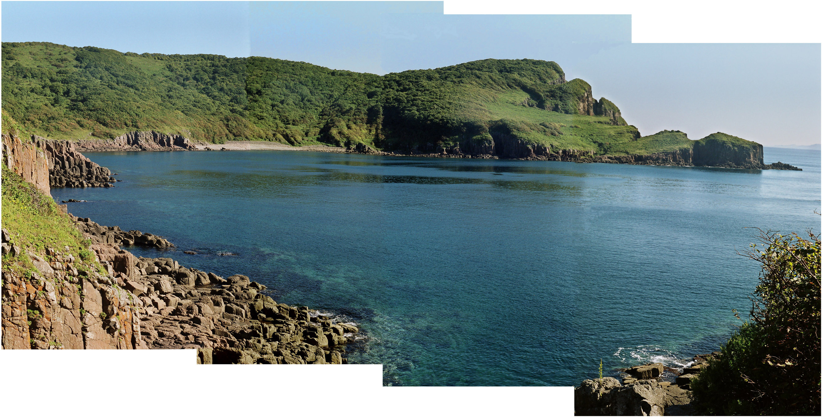 Antipenko is. near Slavyanka